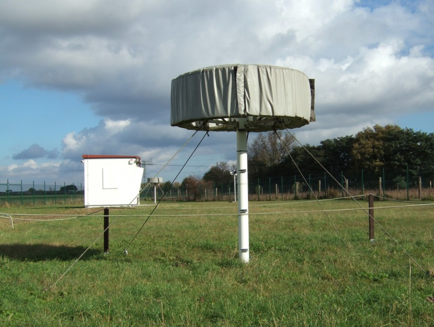 Ranging and Integrity Monitoring Station (RIMS) of the European Geostationary Navigation Overlay Service (EGNOS) at Berlin (BRN), 2 receiving antennas: BRN B in the foreground, BRN A in the background